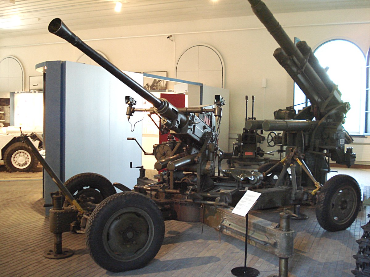 Bofors 40 mm anti-aircraft gun, displayed in Manege Military Museum in Suomenlinna fortress, Helsinki. Photo taken on June 10, 2006. Source: Photo by me, User:Balcer.